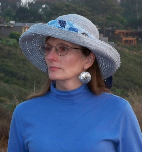 Shauna S. Roberts at the Clarion Writers Workshop, La Jolla, California, 2009.